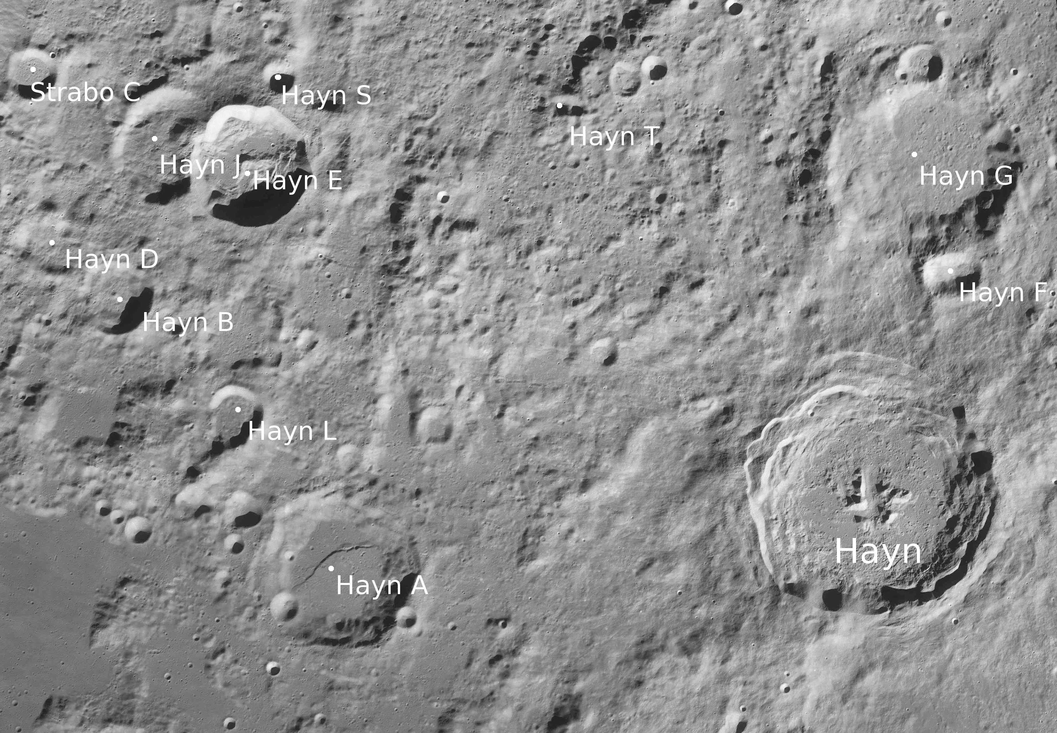 Moon crater Hayn with satellite features (north at top; detail of LRO - WAC north pole mosaic)